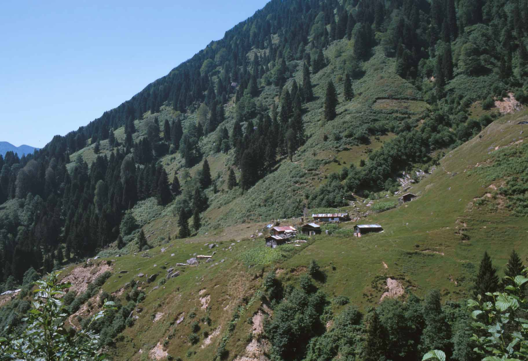 A yayla in the Picea orientalis-Abies nordmanniana-Fagus orientalis forest belt above Ayder/Kackar Daglari. From: G. Pils: Flowers of Turkey - a photo guide.- 448 pp.– Eigenverlag Gerhard Pils (2006).